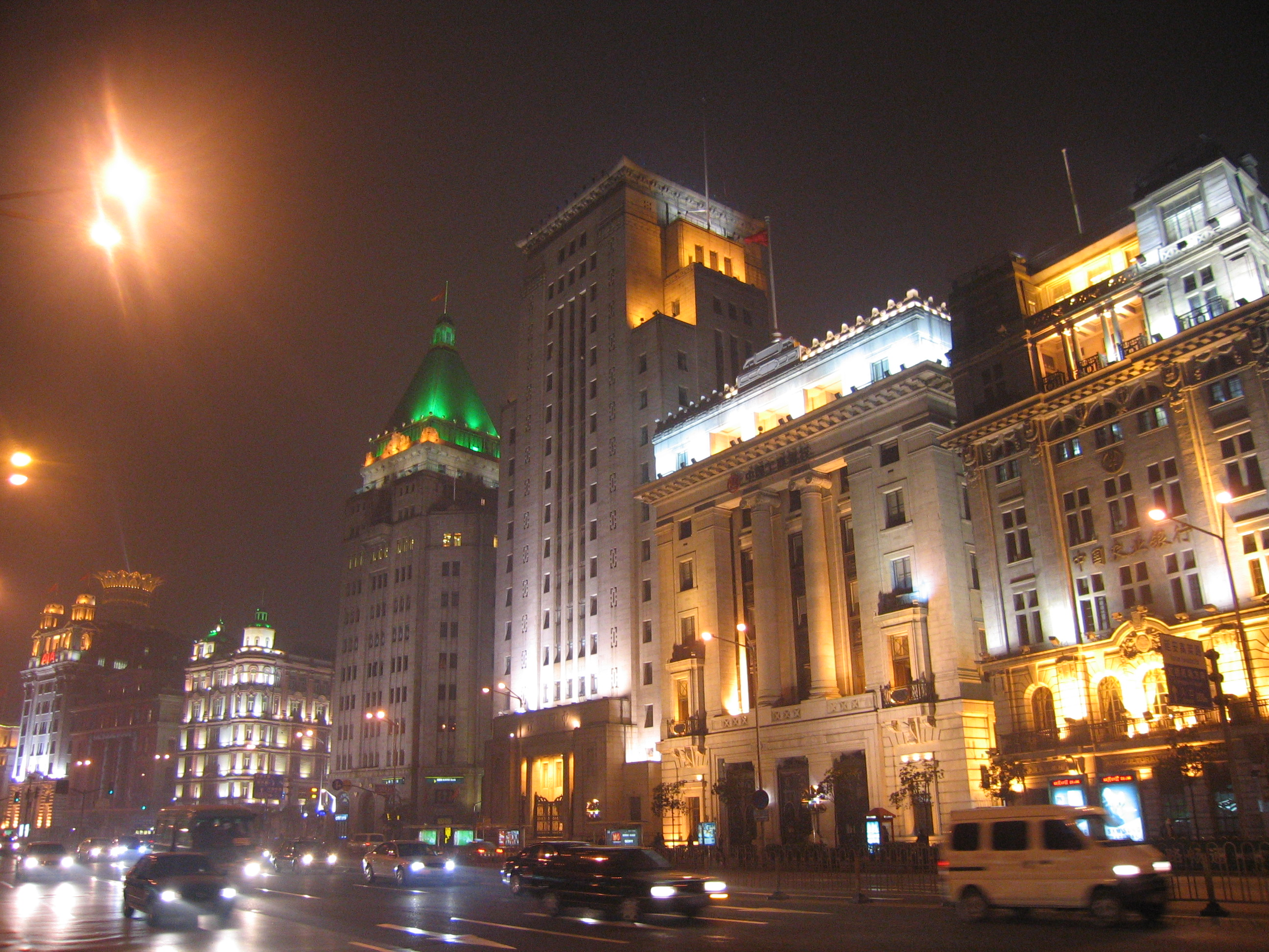 The Bund district in Shanghai with the green-roofed Peace Hotel. The hotel was built by a prosperous Iraqi Jew who made his fortune during the Opium Wars trading opium and weapons. A bachelor, he lived on the top floor after the hotel opened in the late 20s.